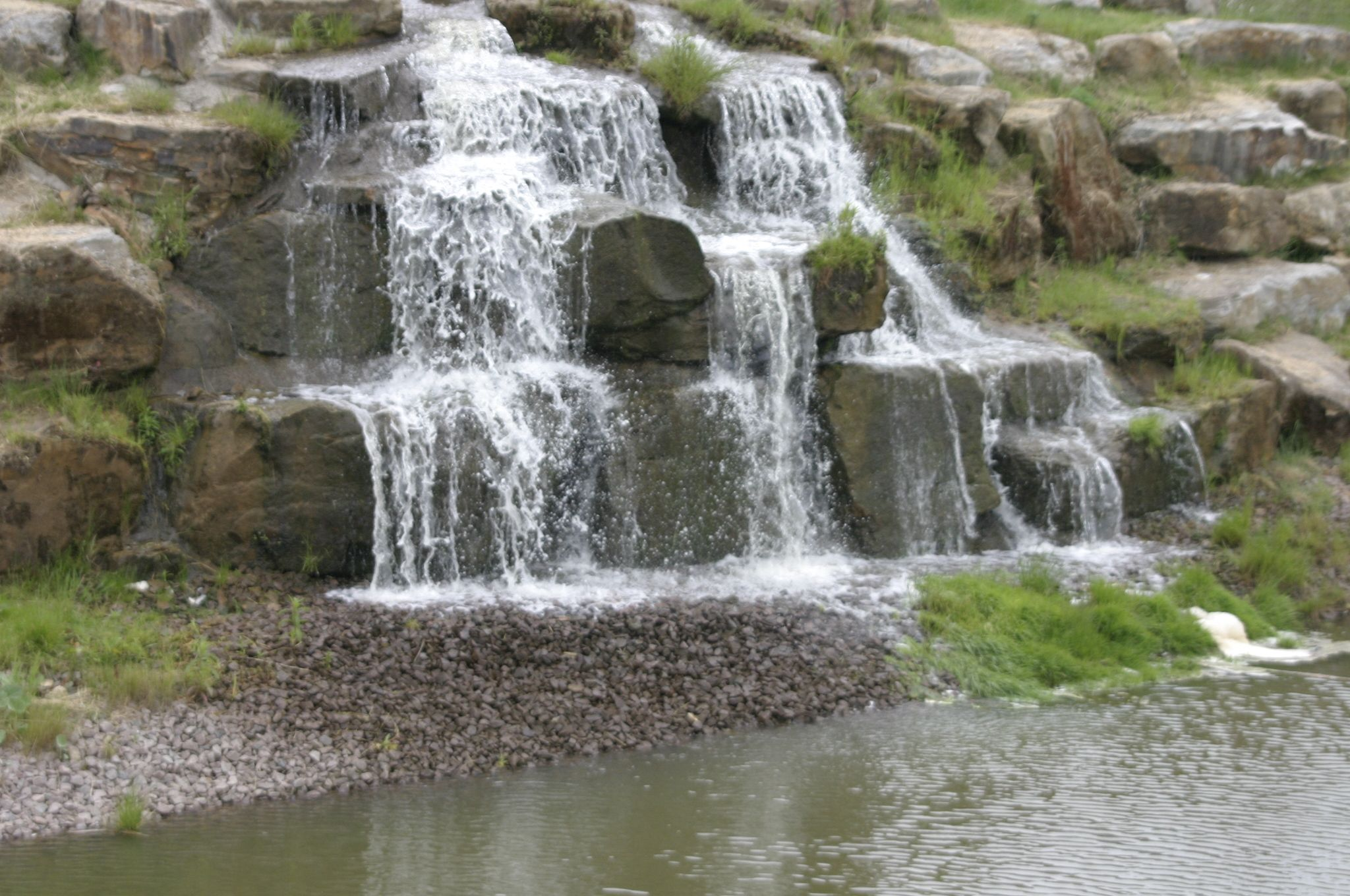 Yorkshire Wildlife Park Waterfall.